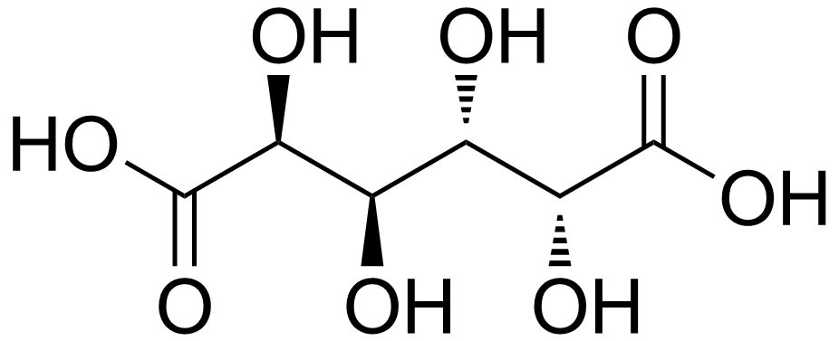 chemical structure of mucic acid